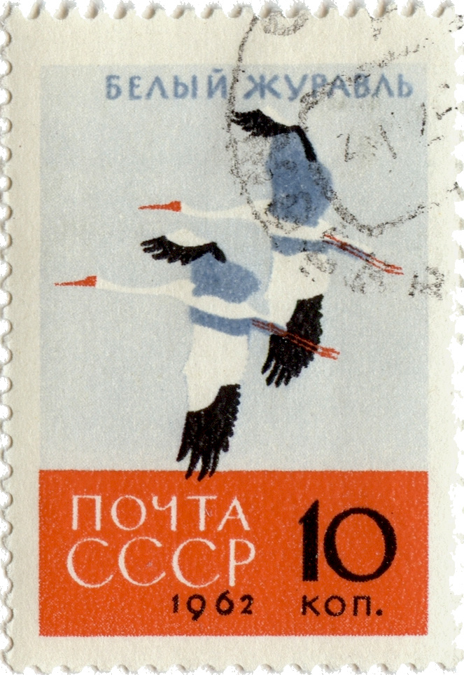 Siberian Crane. Post of USSR 1962.